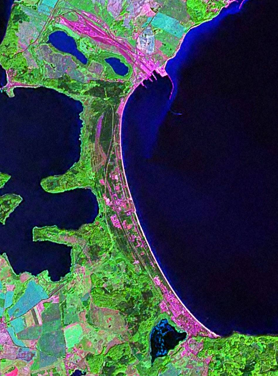 Seaside resort Prora, satellite image. Image covers about 10 x 13,5 kilometers.